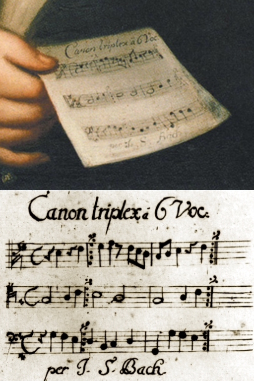 A particular of Johann Sebastian Bach's painting made by Elias Gottlob Haussmann in 1746.